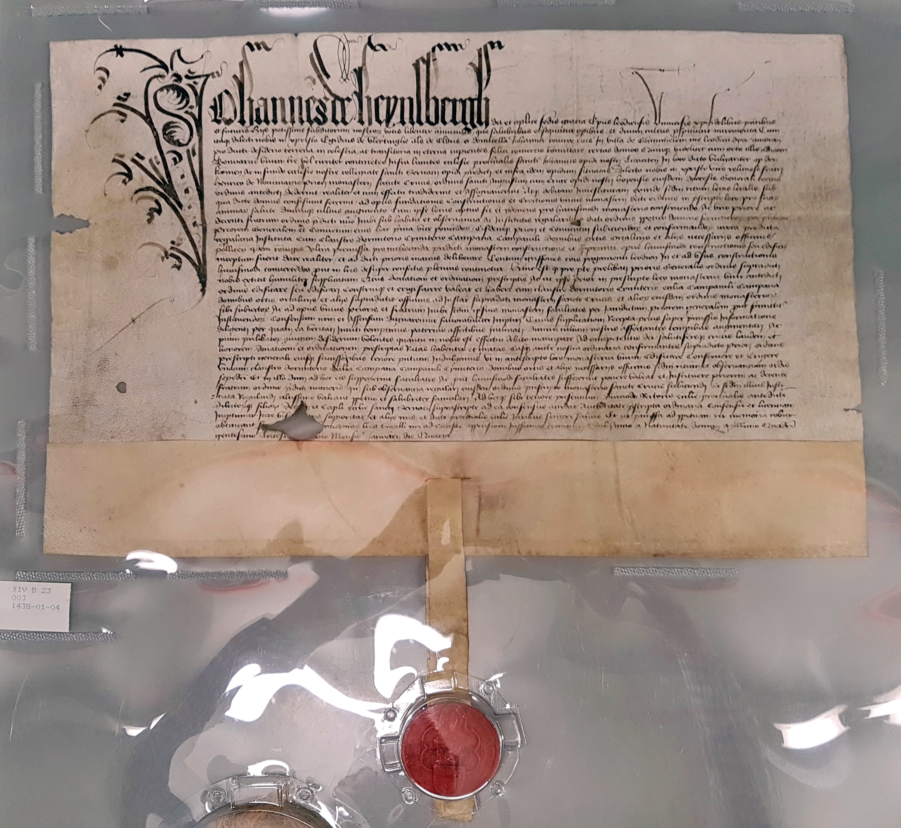 Document with attached seal in the Kruisherenarchief, the archives of the former Monastery of the Croziers or Crutched Friars (1438-1796) in Maastricht, the Netherlands. The Kruisherenarchief has been part of the National Archives in Limburg (now: RHCL) in Maastricht since 1882. Although not the most important, it is considered the most complete monastery archives in the Netherlands, Belgium and the German Rhineland. Here: one of the oldest documents relating to the monastery, packed acid-free in Melinex (archival polyester sheets). The document of 4 January 1438 concerns the permission given by the bishop of Liège, Jan van Heinsberg, to the Order of the Holy Cross to establish their Maastricht monastery. The attached seal is of Jan van Heinsberg.